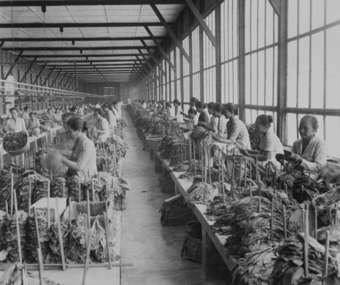 Women sorting the tobacco-leaves on the tobacco-estate Tandjong Morawa in Serdang, East-Sumatra.